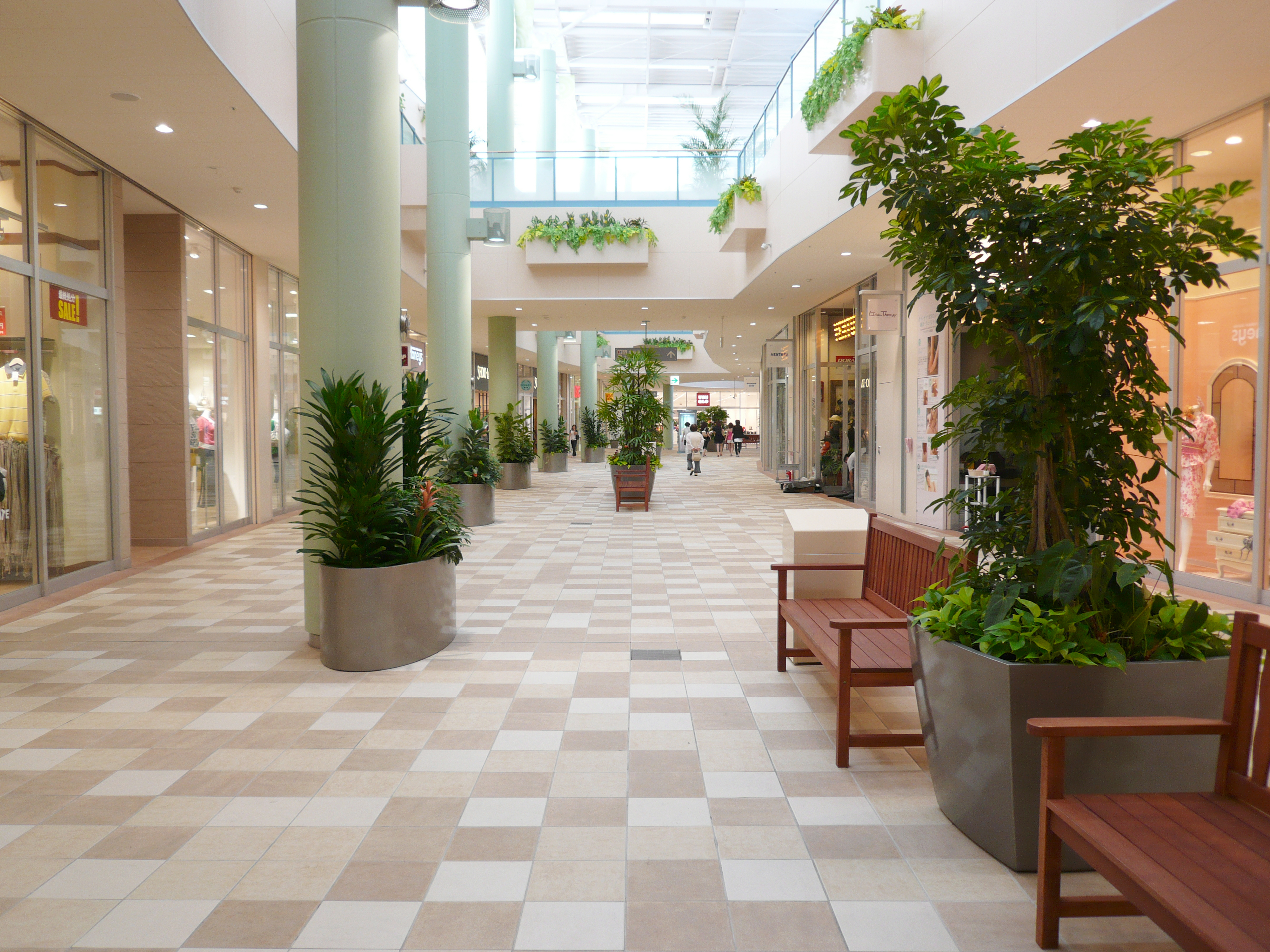 Open Air Mall in LOC TOWN Suzuka Shopping Center.